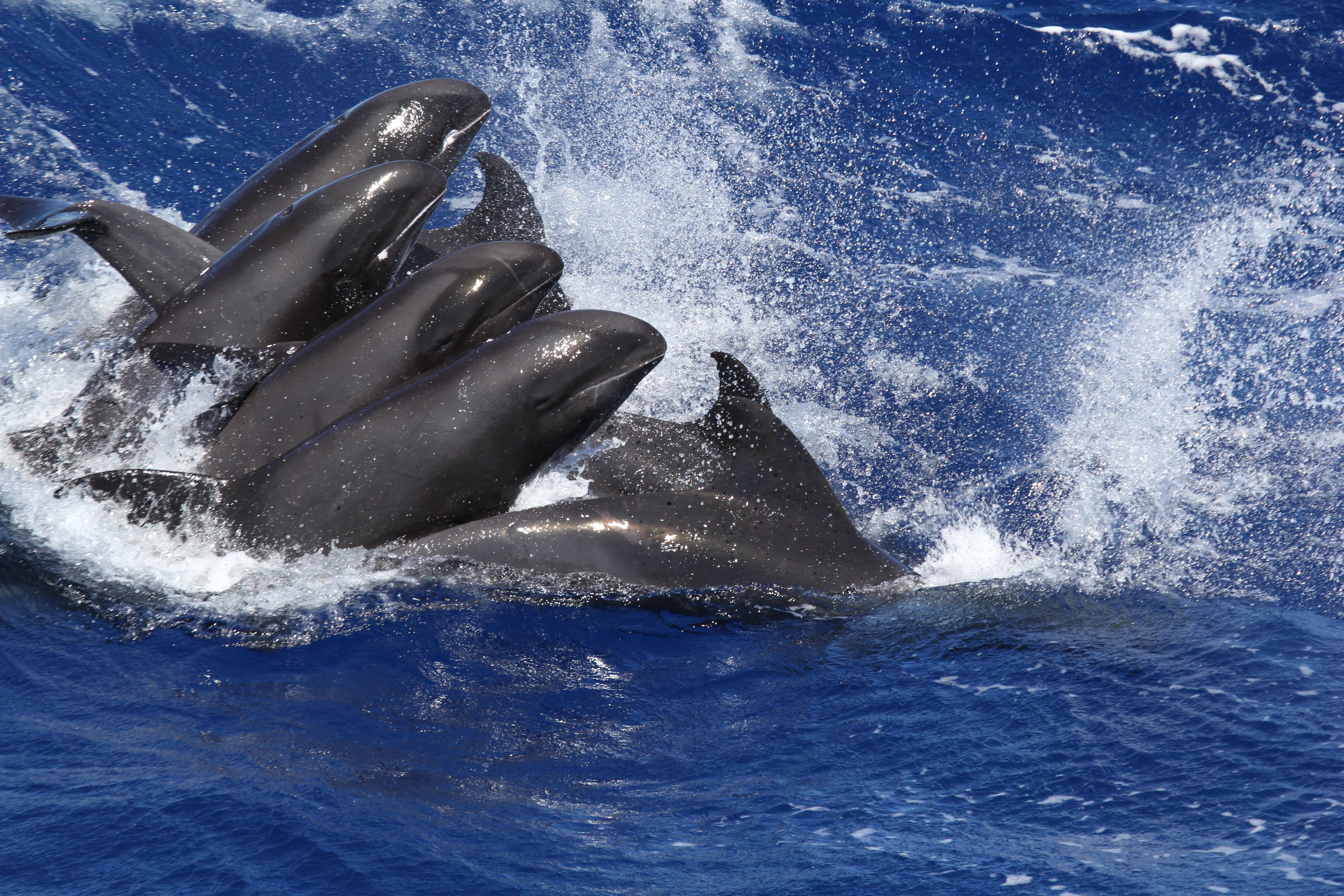 Melon-headed whales (Peponocephala electra) Image ID: anim2623, NOAA's Ark Collection Location: Hawaii, Kauai Photographer: Laura Morse Credit: NOAA/NMFS/PIFSC